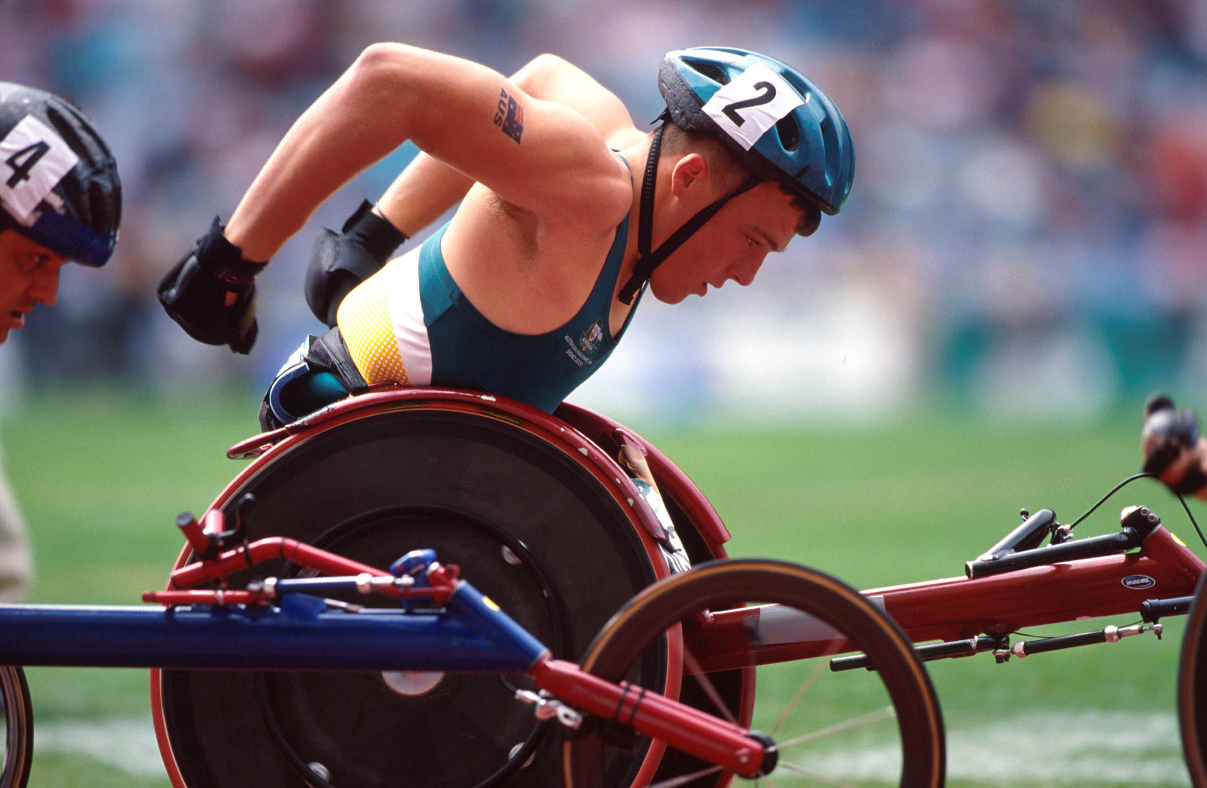 Action shot of Australian wheelchair racer Kurt Fearnley during a race at the 2000 Sydney Paralympic Games